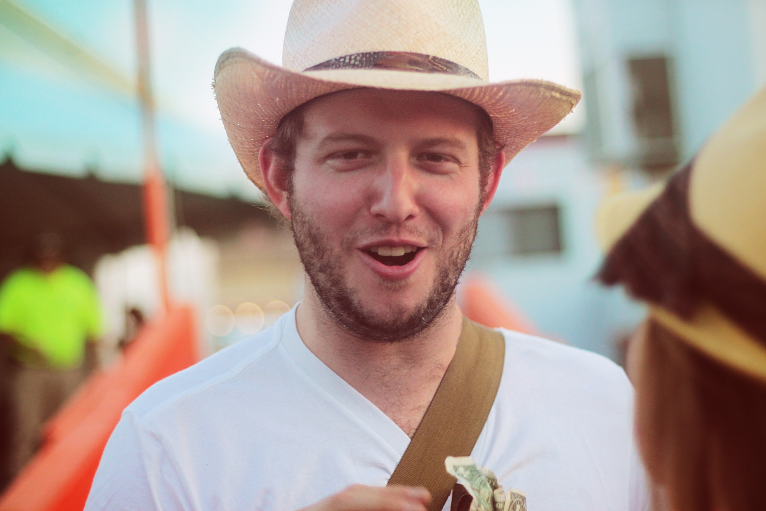 I went to Jazz Fest yesterday with some friends to see Bon Iver. After they were done playing, we went around the stage and waited by their tour bus and begged the stylist to tell them to come out, AND FINALLY THEY DID. BEST DAY EVER.